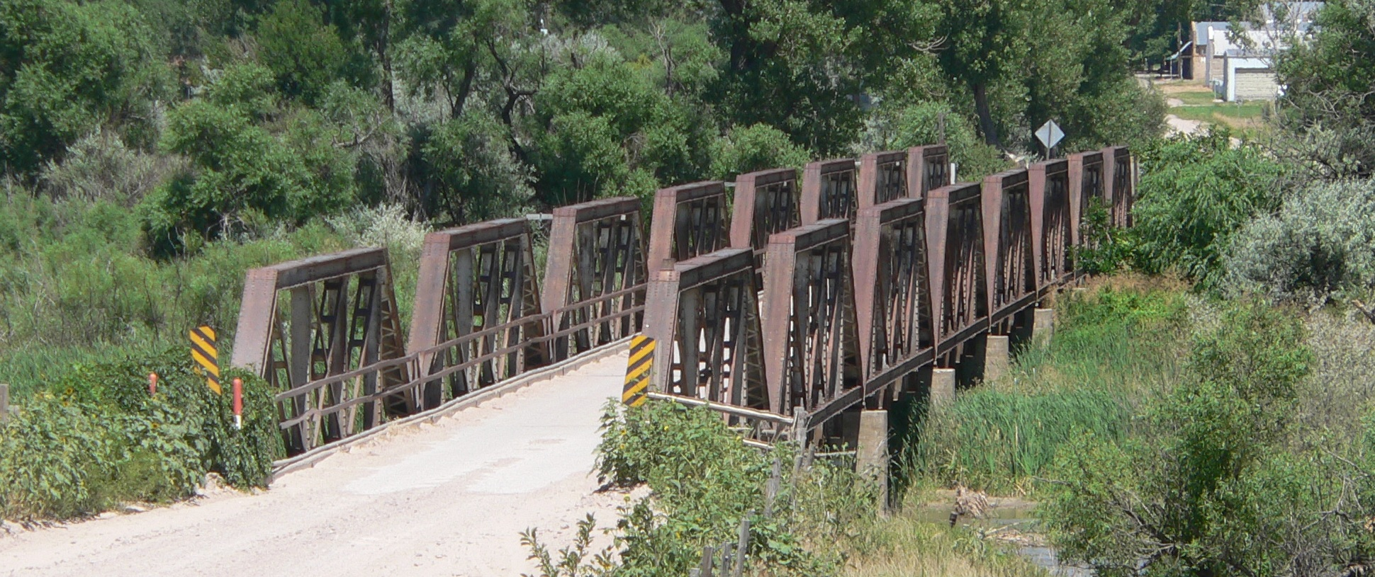 Lisco State Aid Bridge south of Lisco, Nebraska, carrying county road 151 (designated Coldwater in Lisco's street-naming system) across the North Platte River; seen from the south (east is downstream). The bridge, consisting of eight Pratt pony truss spans, was built in 1927-28. It is listed in the National Register of Historic Places.